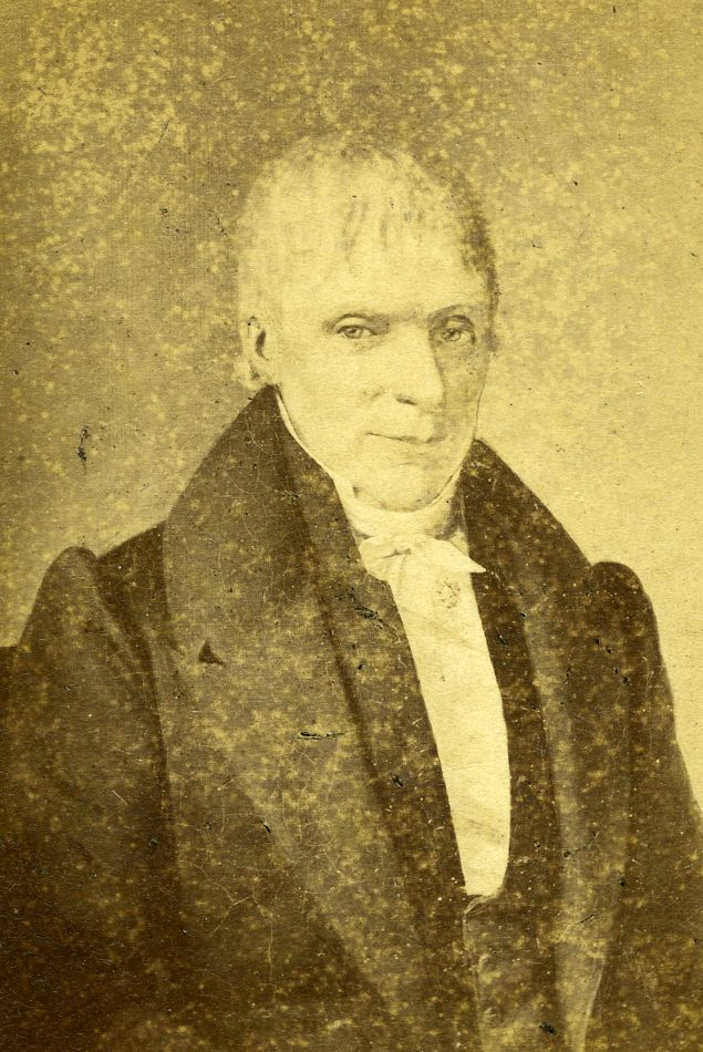 Harboe Meulengracht, painting by J. E. Bøgh